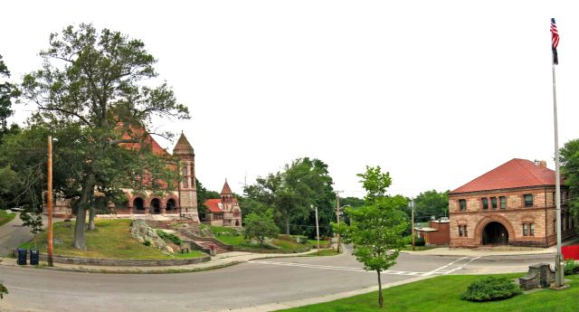 North Easton, MA: View from The Rockery showing Oakes Ames Memorial Hall, the Ames Free Library, and 66 Main Street. Copyright ©2005 by Daniel P. B. Smith and licensed under the terms of the GNU Free Documentation License.